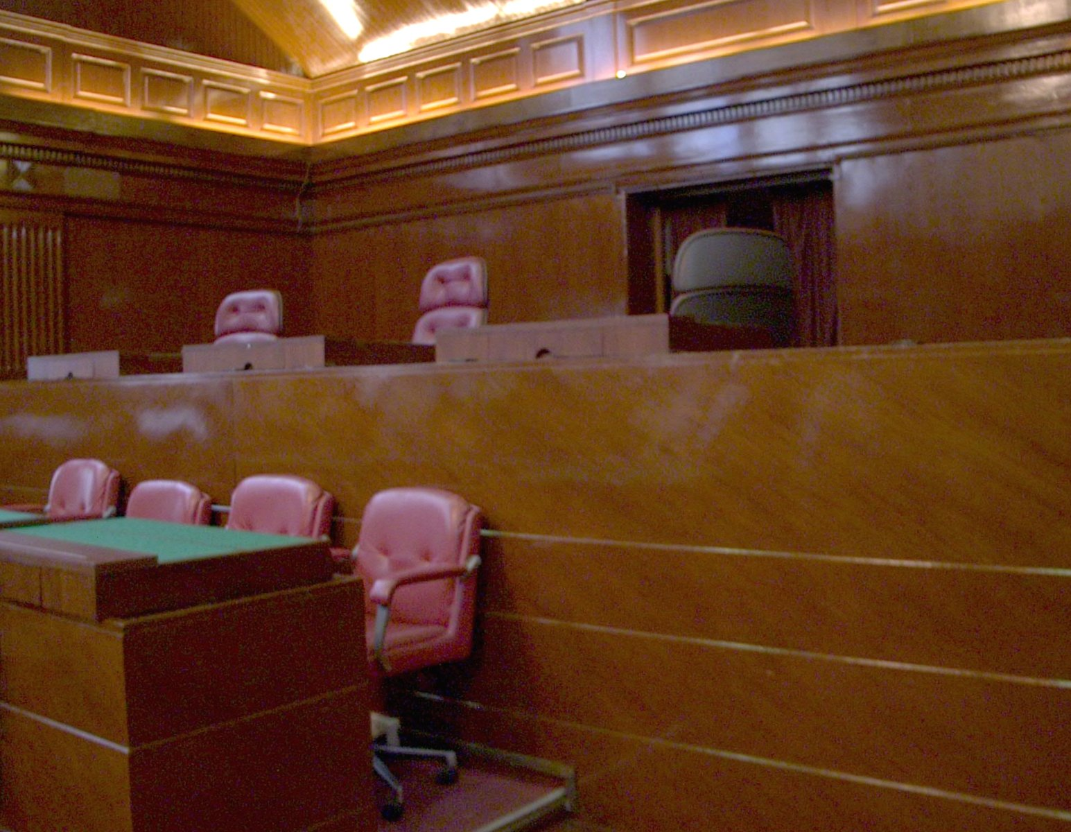 The courtroom in the Old Supreme Court Building, Singapore, which was used for sittings of the Court of Appeal.